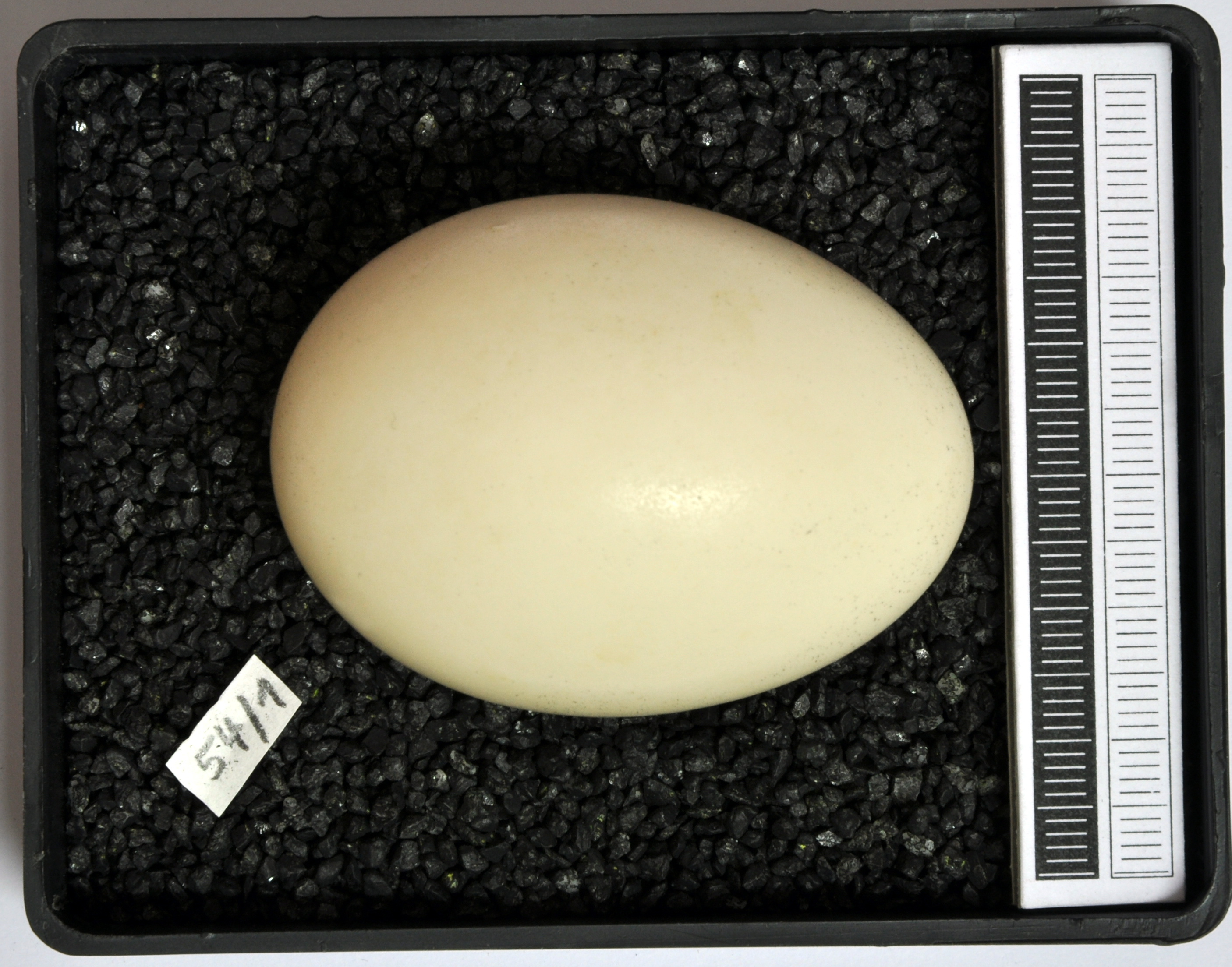 Mandarin duck Aix galericulata, egg, Coll. Museum Wiesbaden, Origin: Bavaria, 30.05.1972, leg. W. Abelmann